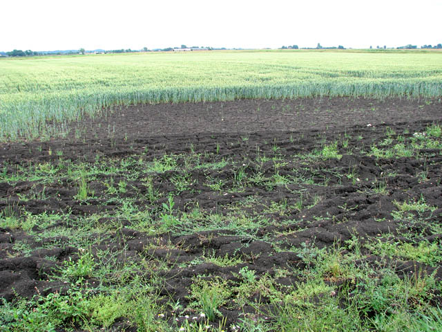 A crop of wheat The surface of the fertile black soil of the fens is cracked even after a few days of sunshine and showers. Narrow private roads and tracks link the isolated farms, farm buildings and fields in this vast fenland called Magdalen's Fen. The fen was accessed by kind permission of farm staff.